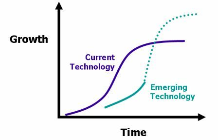 InnovationLifeCycle